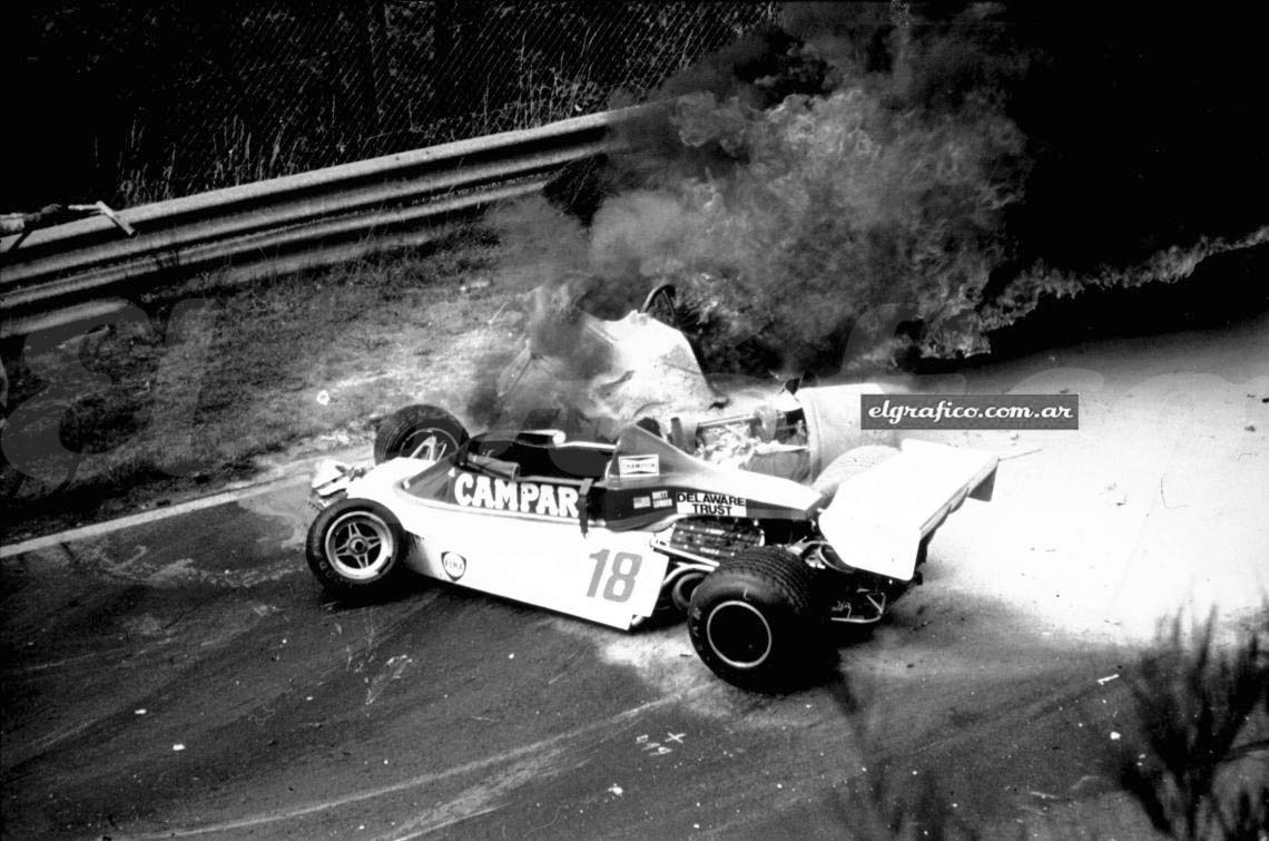 Niki Lauda car crash in Nurburbring